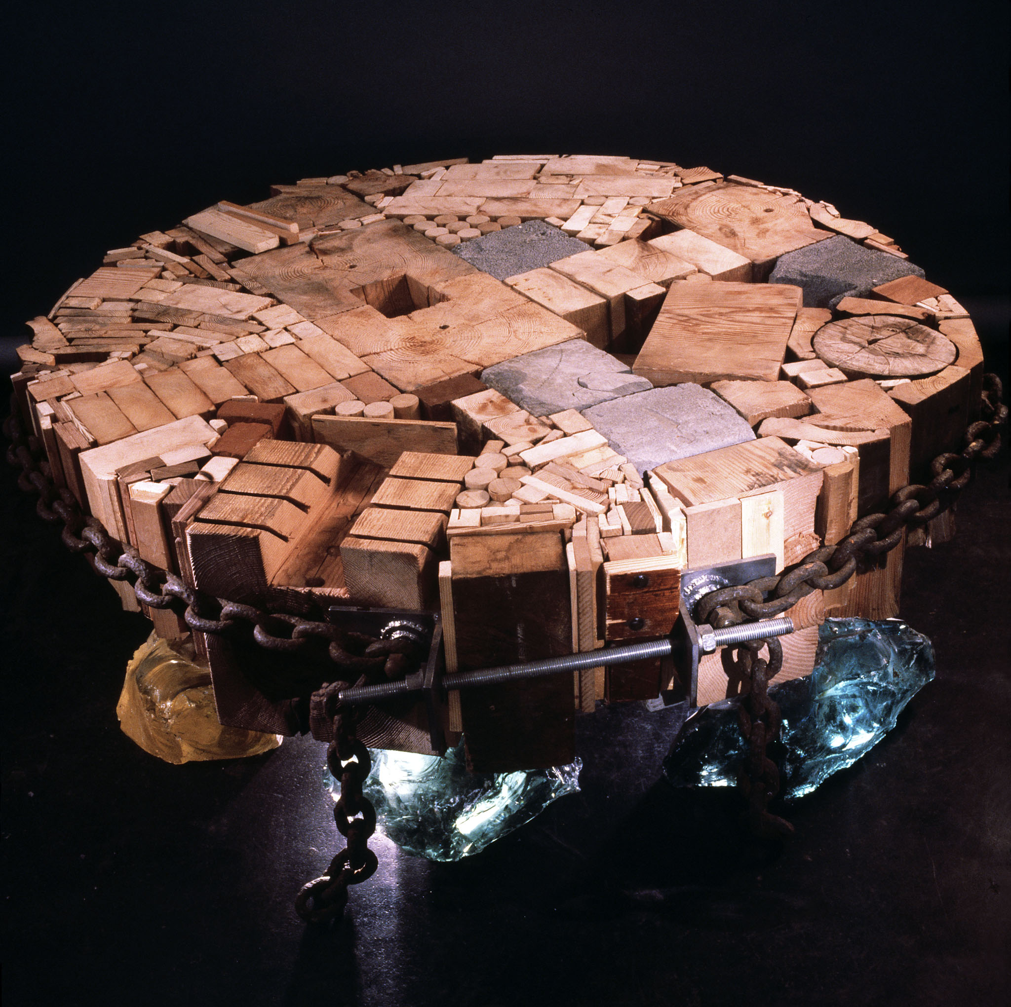 Woodcutter’s Table, Danny Lane, 1989, Wood, stone, brick, breeze block, steel, glass, chain